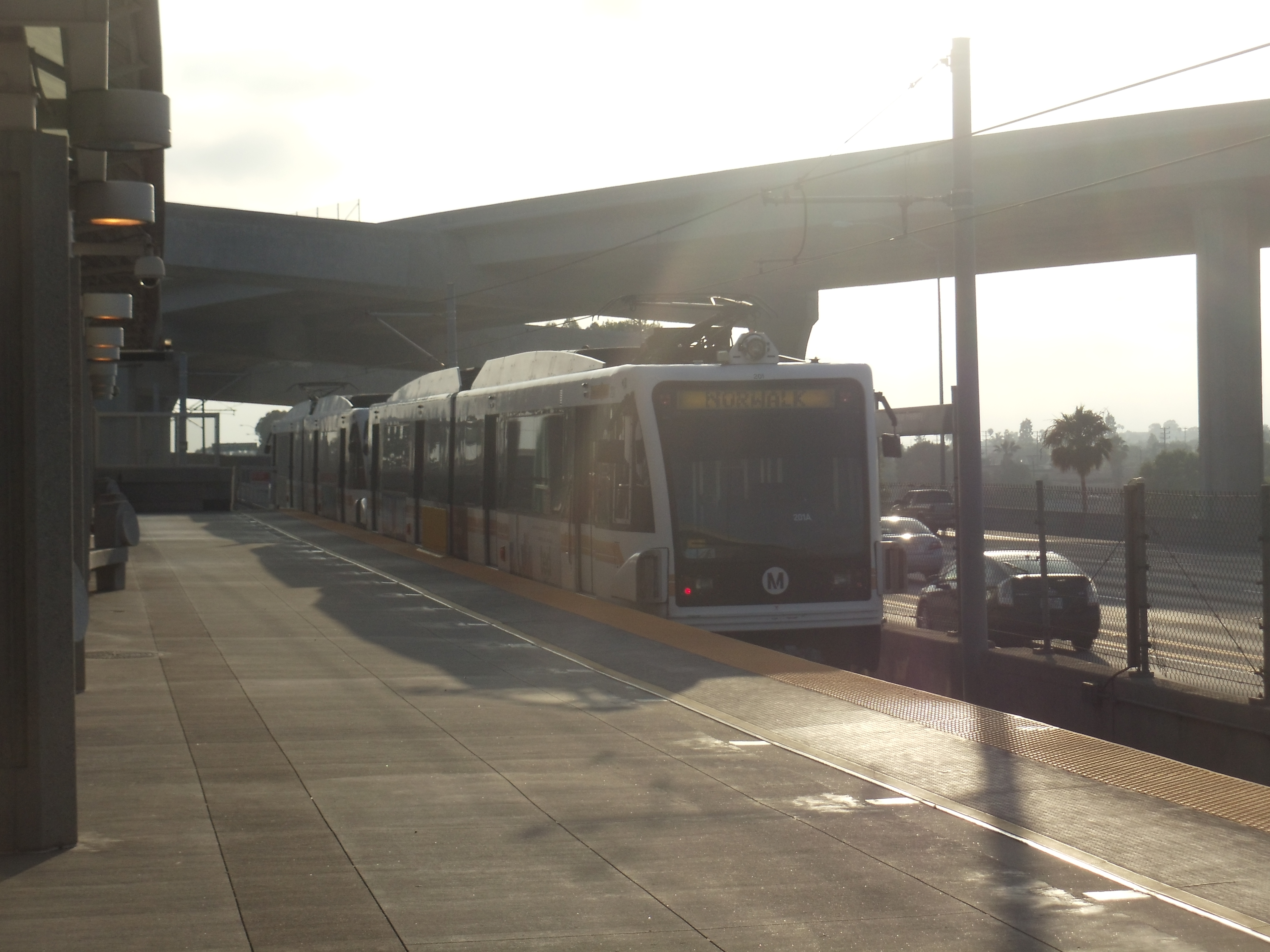 Green Line departing Harbor Freeway Station.